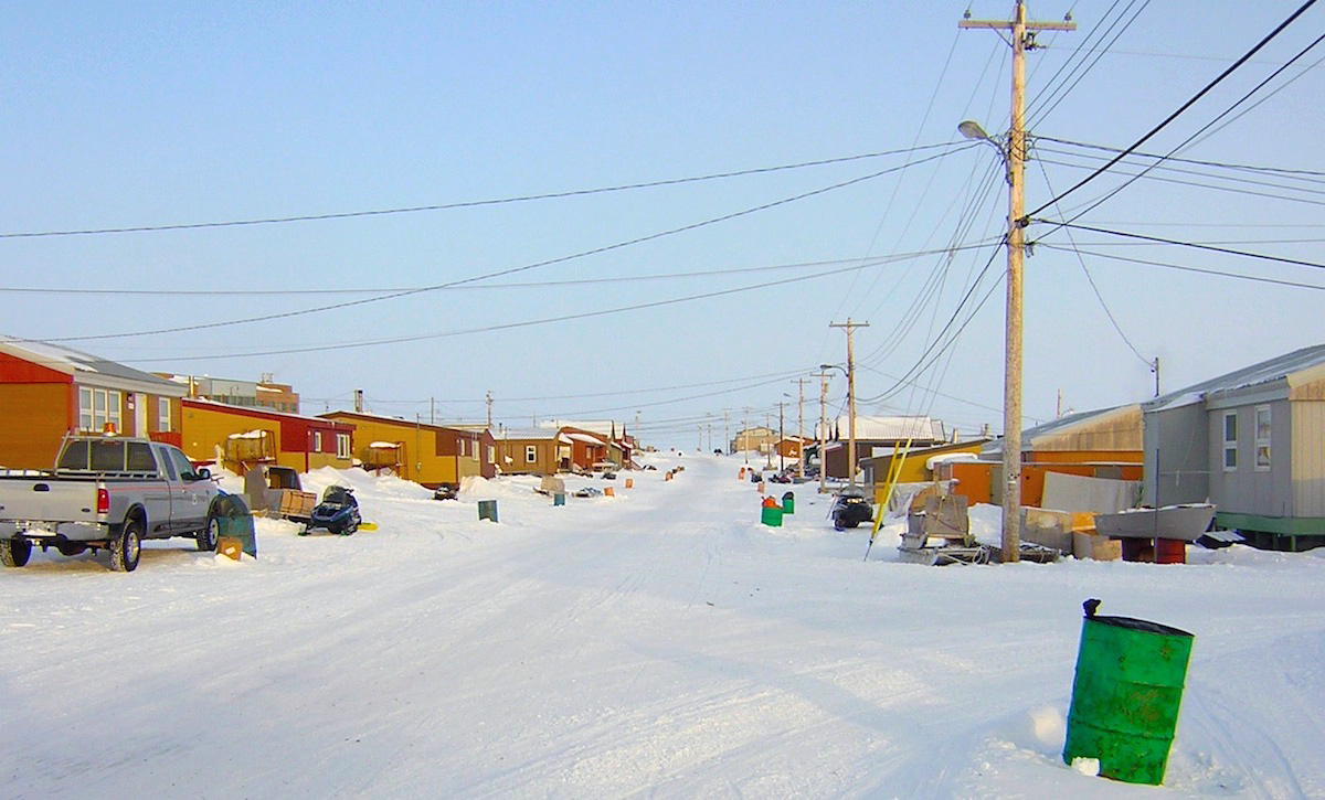 View of the main street of the hamlet of Gjoa Haven, Nunavut